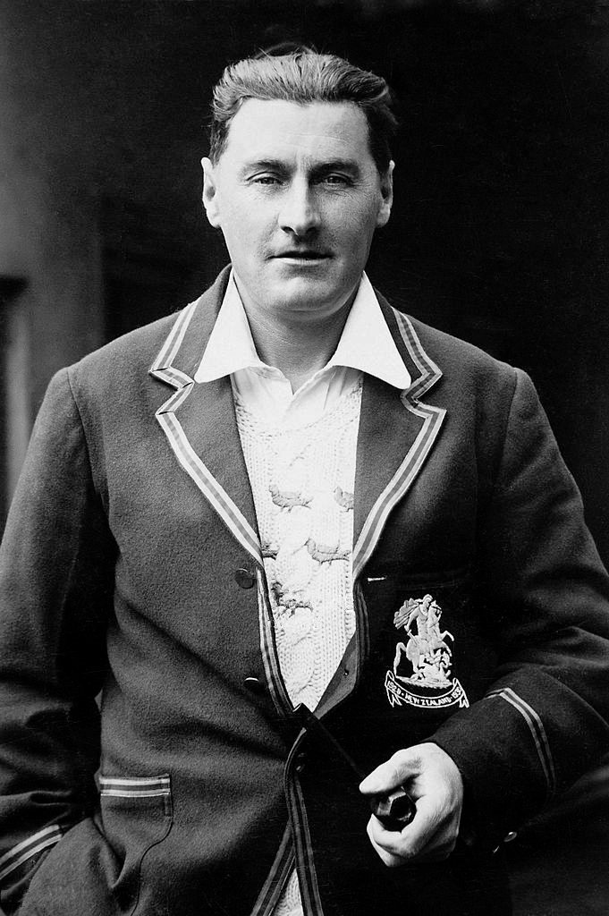 Ted Bowley, Sussex County cricket club, wearing his 1929 MCC England tour of New Zealand blazer, photographed circa 1933.